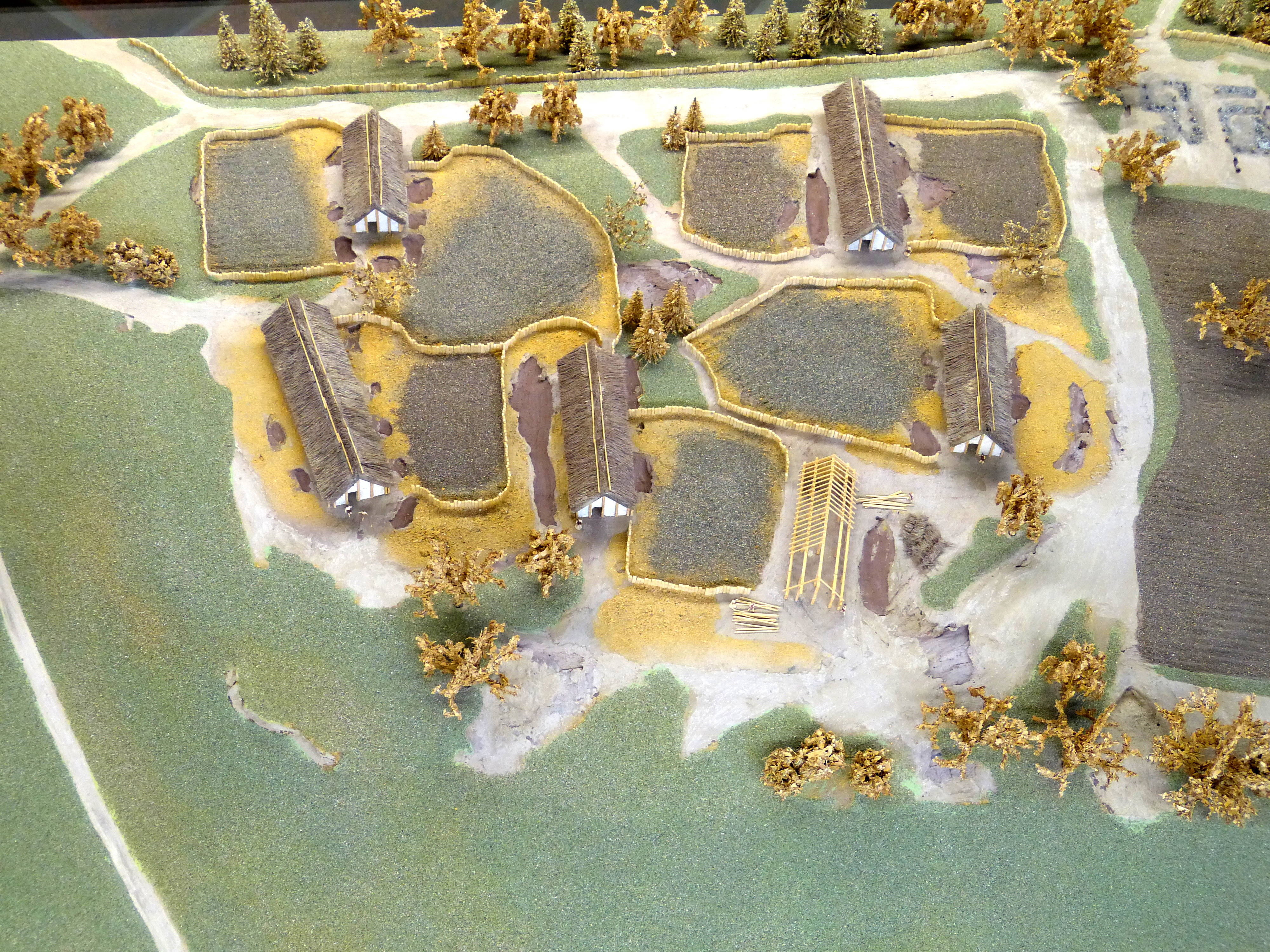 Kelheim ( Lower Bavaria ). Archaeological Museum: Reconstruction of a settlement of the Linear pottery culture ( 5th millenium BC ) from Hienheim